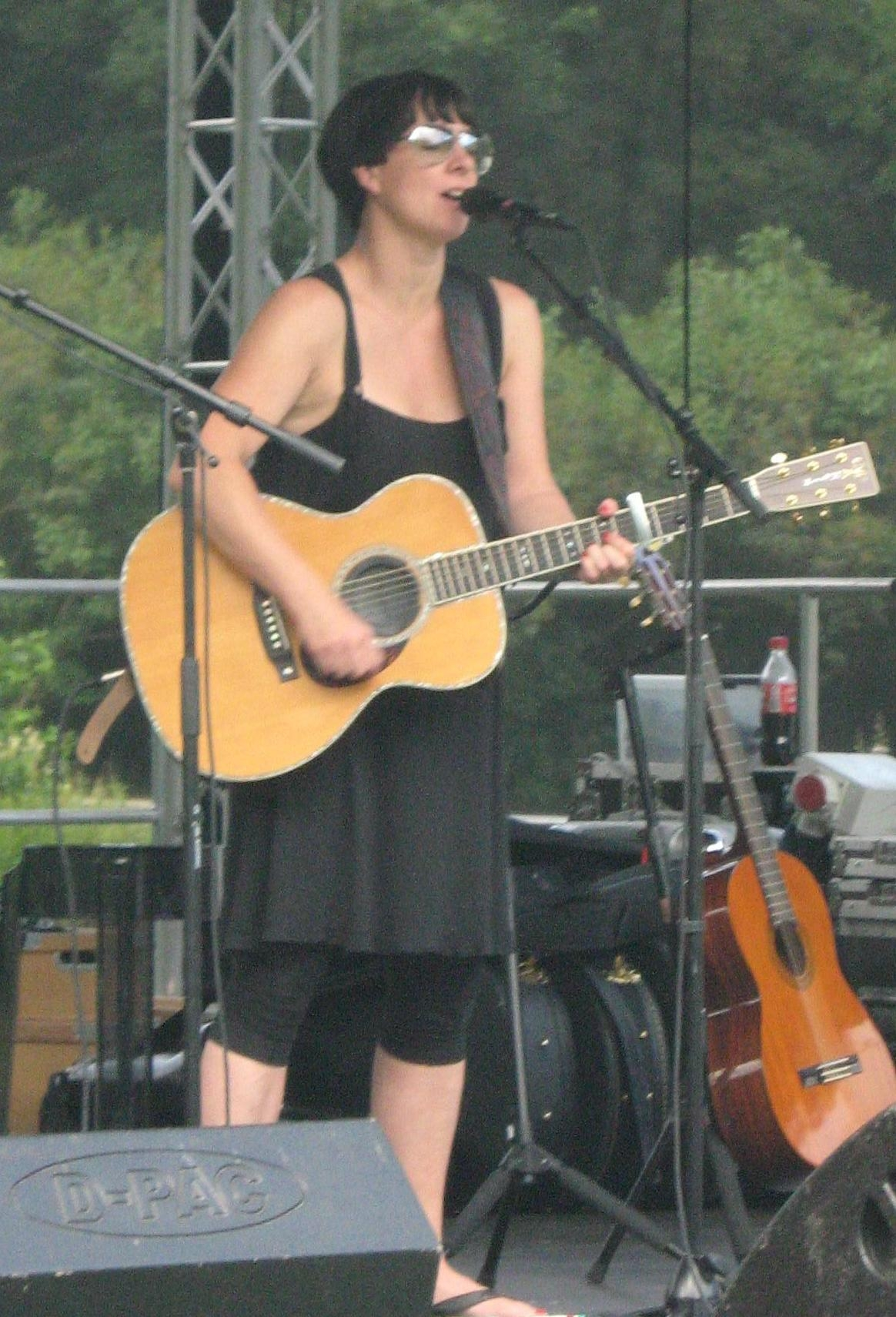 Jette Torp, Danish singer, performing at Liselund, Møn, Denmark, 23 July 2010.